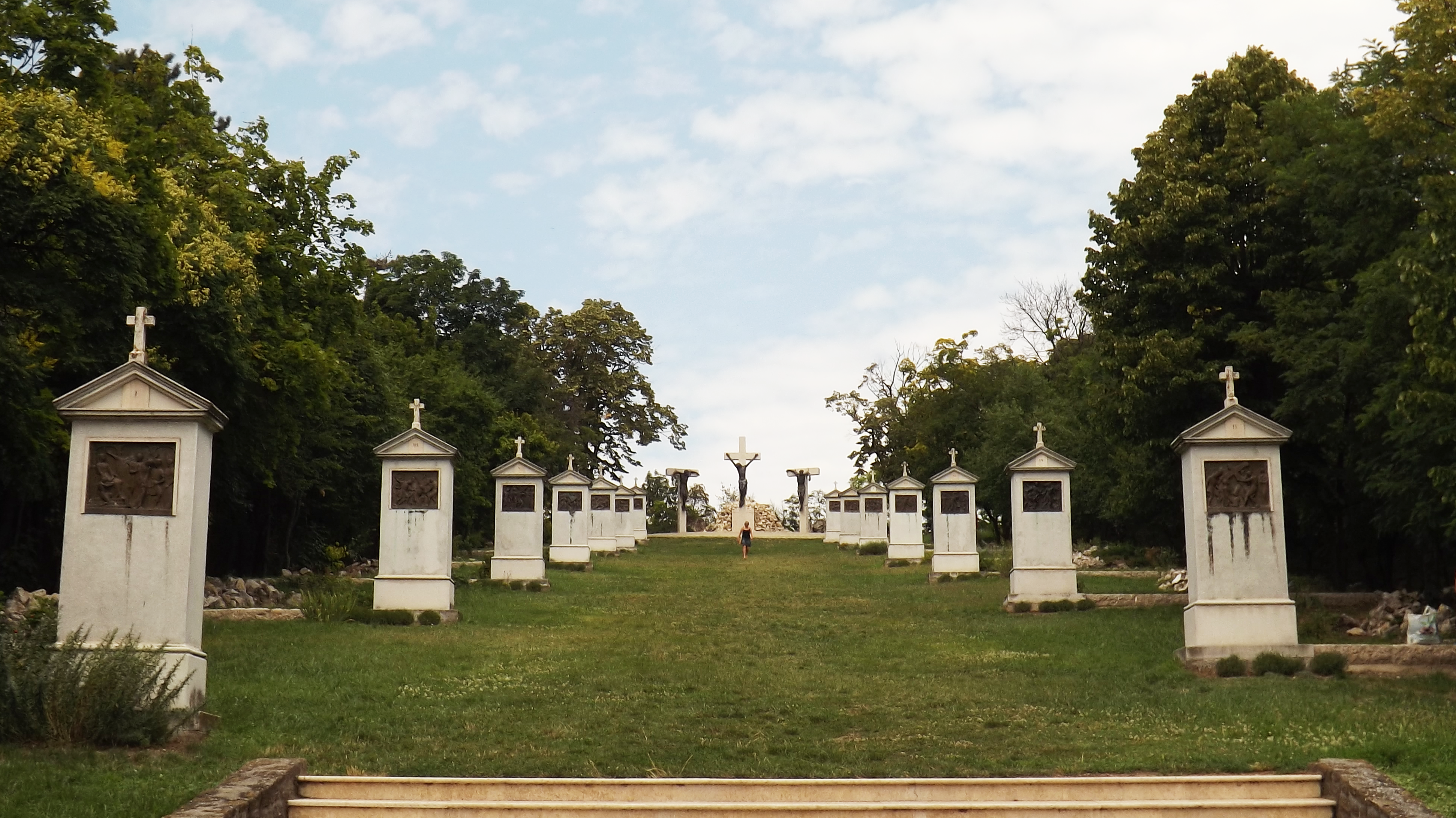 The IV. Charles Calvary in Tihany, Hungary